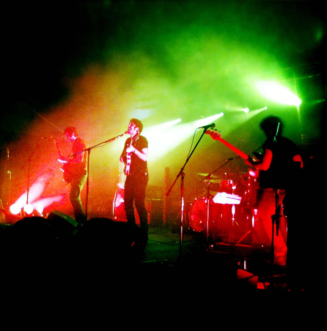 The Coronas performing at the Milk Market Limerick